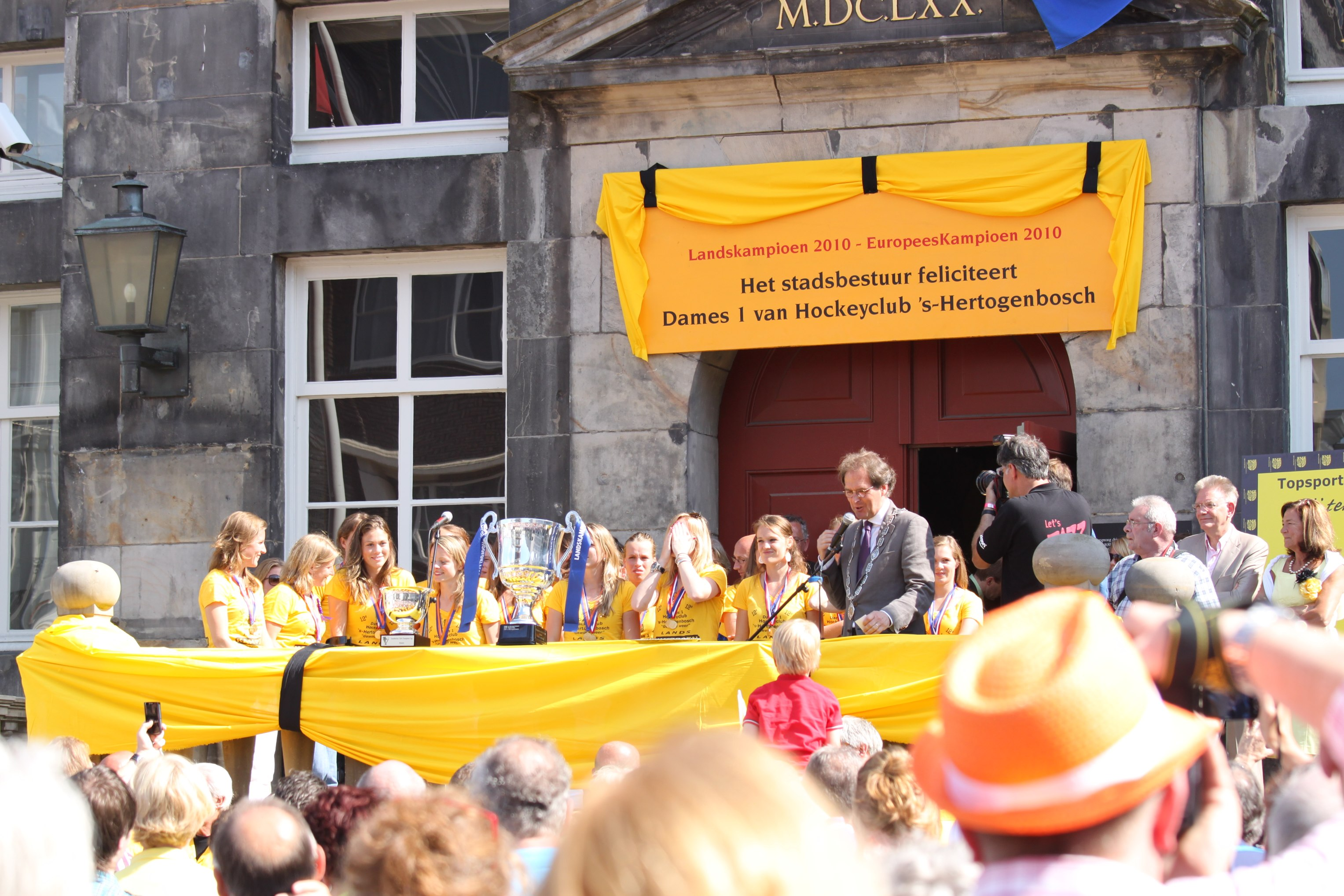 The women's team of hockey club 's-Hertogenbosch is congratulated by the mayor for winning the Dutch and European Championships in 2010.